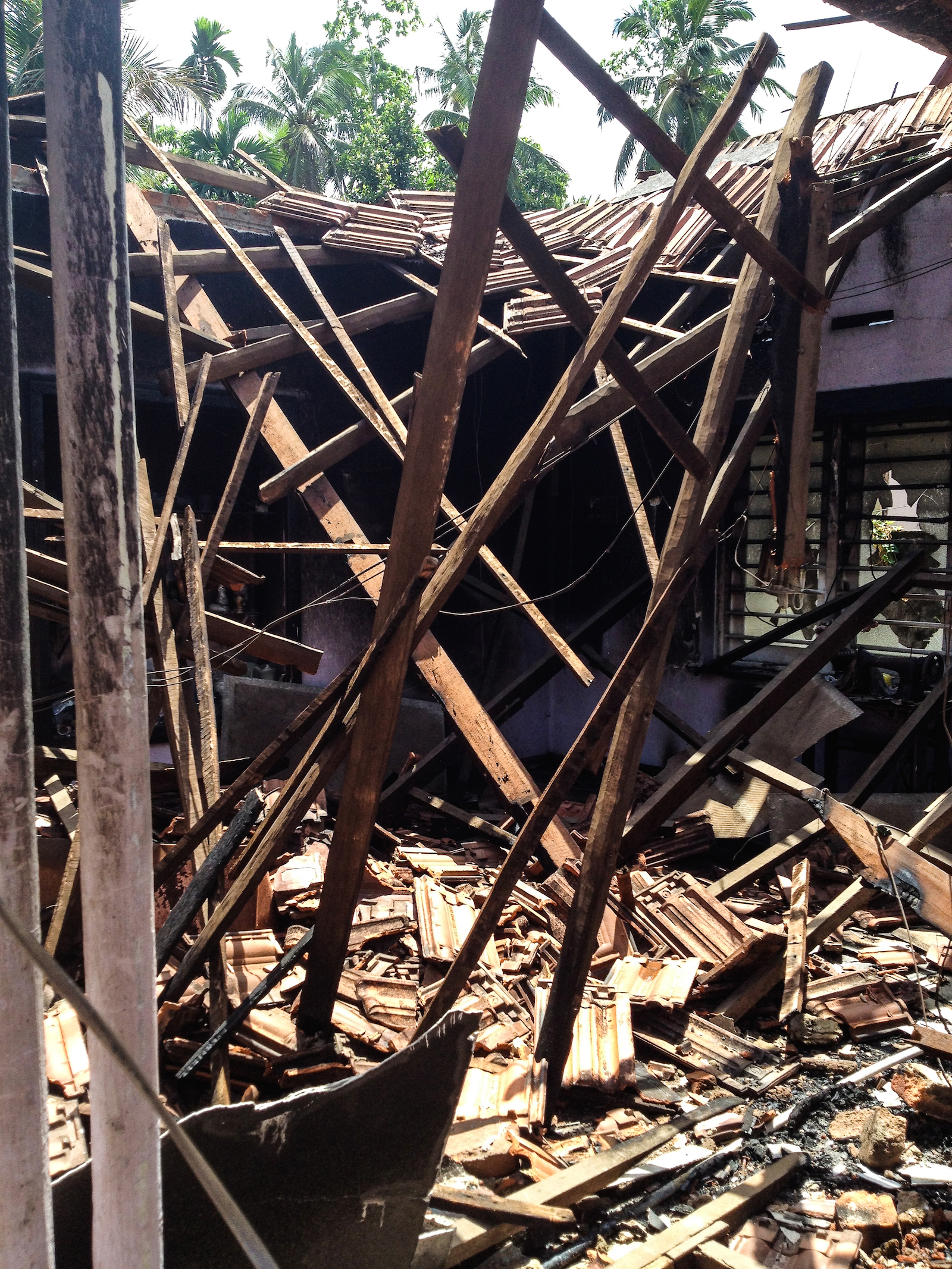 IMG_9102 Photos around the aftermath of the violence against the Muslim community in Aluthgama, Sri Lanka in June 2014.